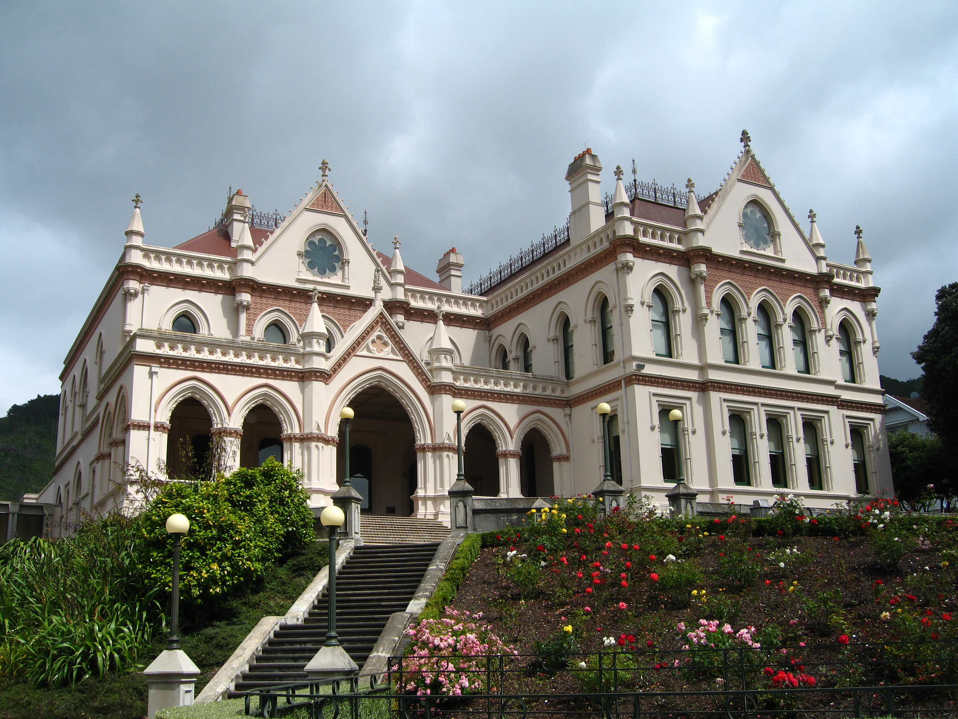 New Zealand Parliamentary Library Building, Wellington, NZ. New Zealand Historic Places Trust Register number: 217.